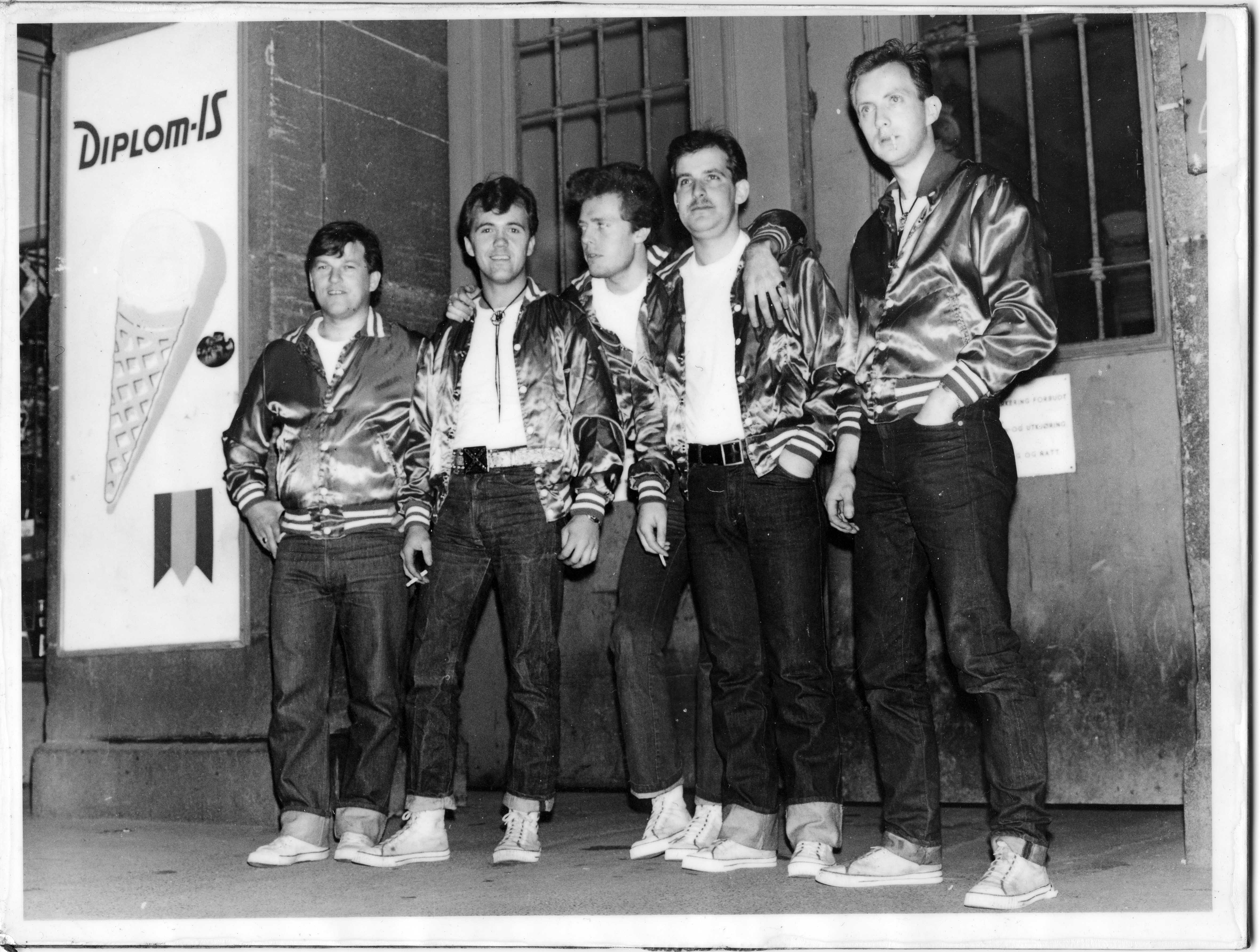 Outside rock club Spotlight in Oslo 1978